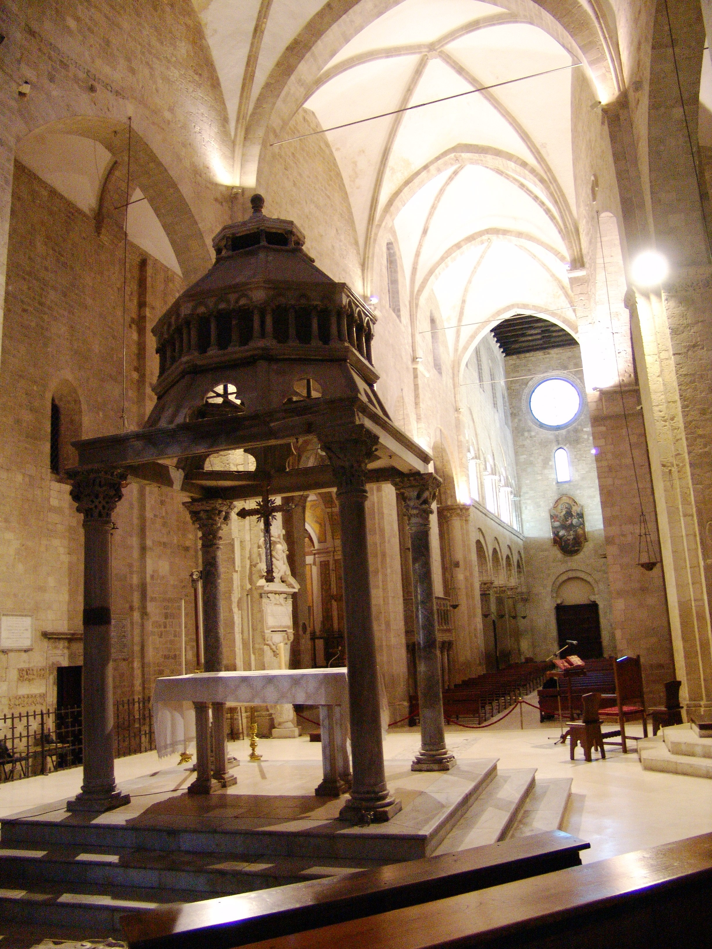 Navata centrale cattedrale barletta (the central nave of the cathedral in Barletta)